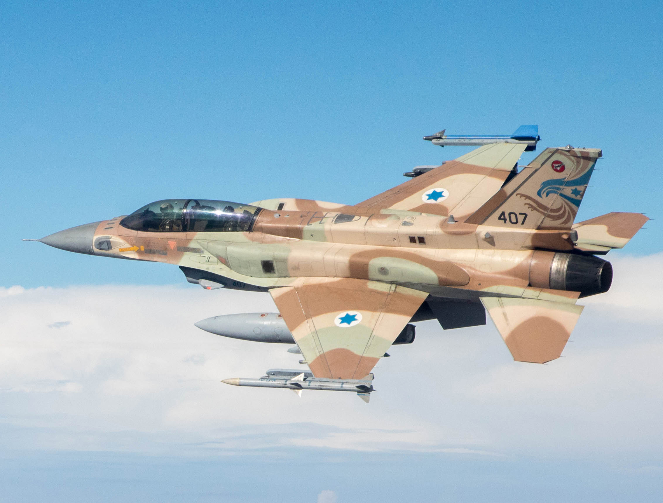 The "Adir" jets first flight in Israel. Pictured: "Adir" jet and F-16I "Sufa". Photo by: Maj. Ofer